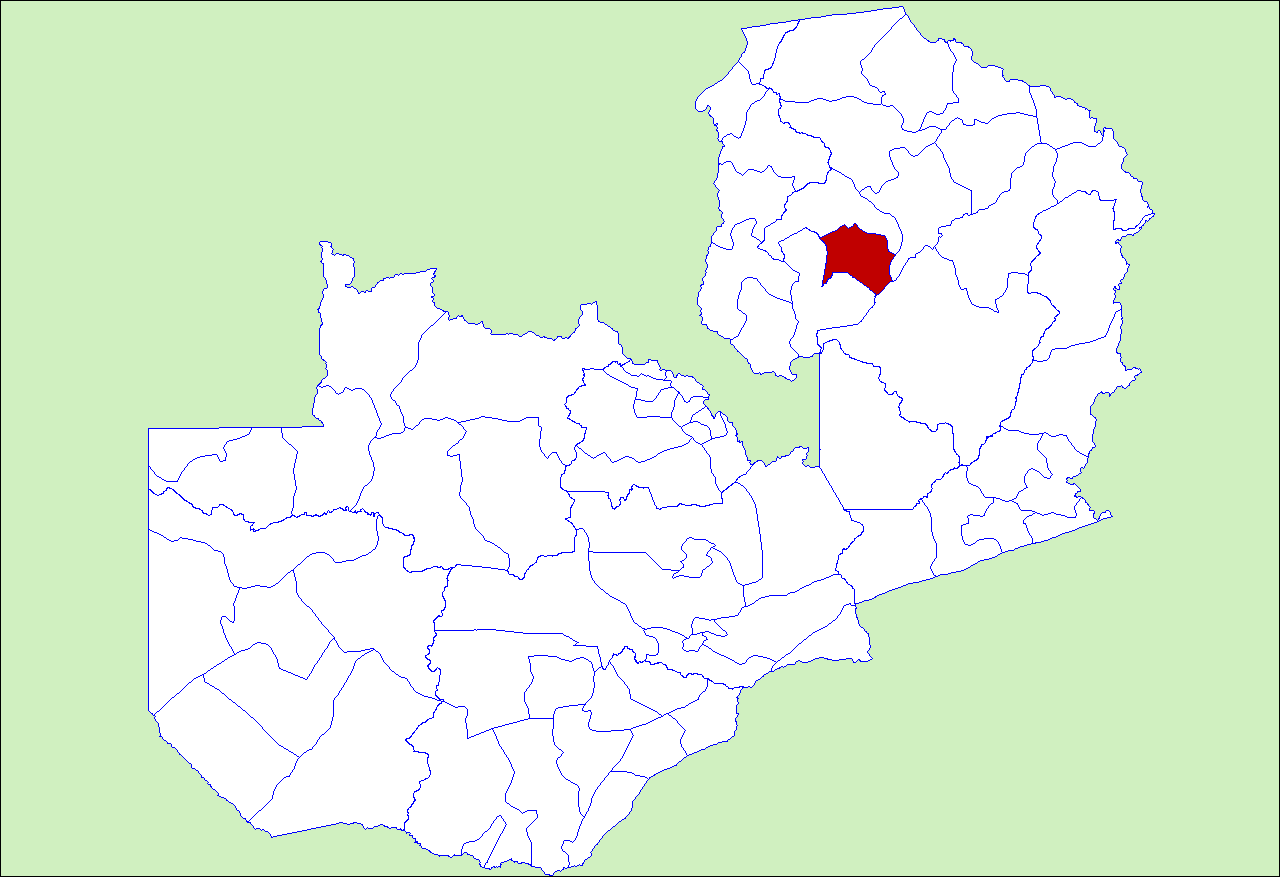 District locator in Zambia